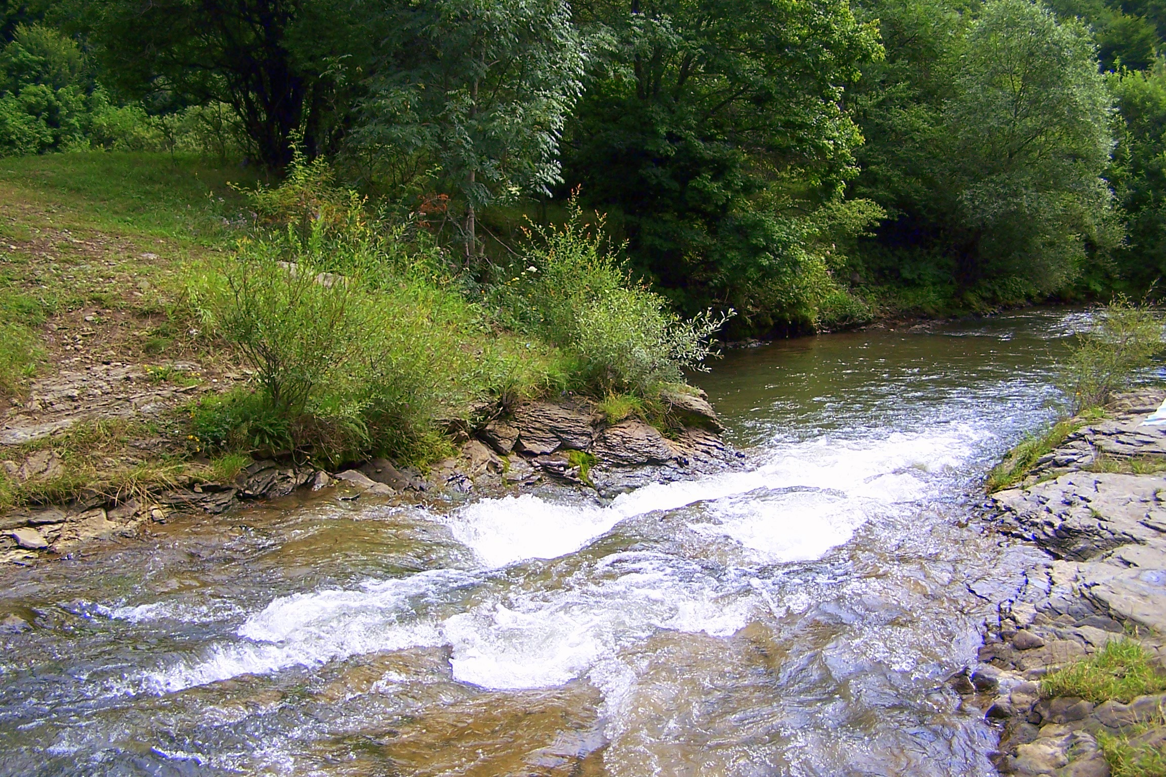 Algeti River, Near vannochka (Local name "Jakuzi")